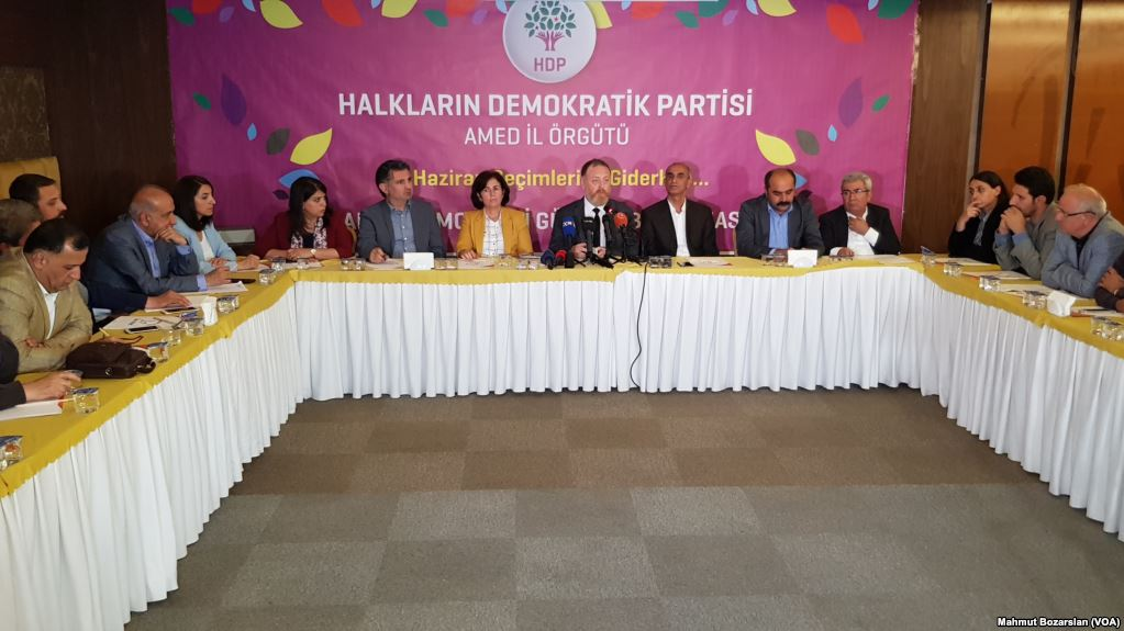 HDP co-leader Sezai Temelli conducting pre-election meetings with local activists in Diyarbakır